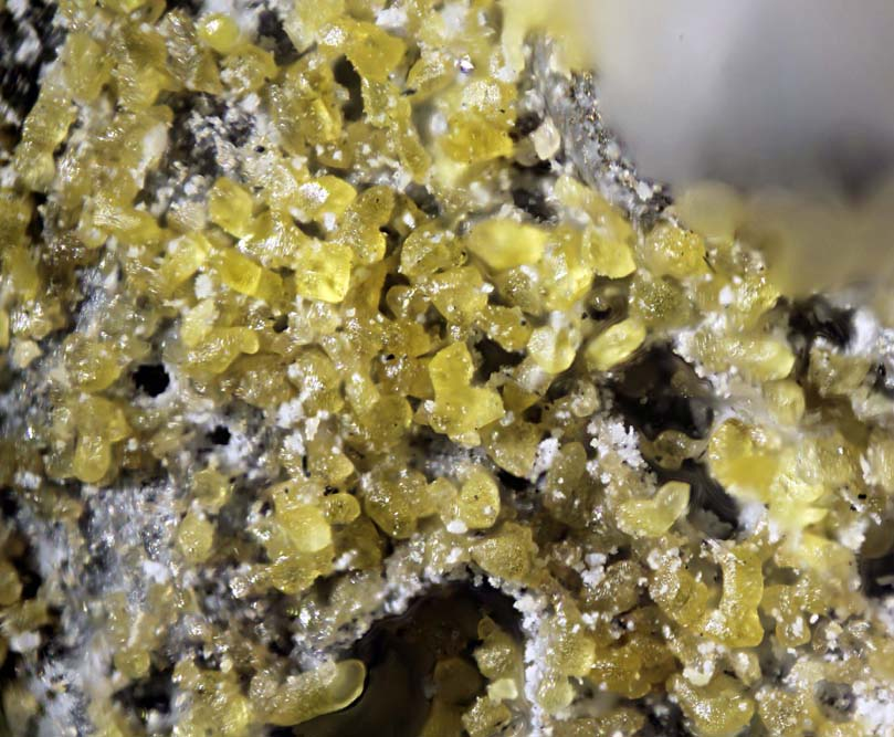 Honey yellow challacolloite crystals from the famous locality of La Fossa Crater (Vulcano Island, Aeolian Islands, Sicily, Italy). Very nice under the microscope for the contrast with the matrix.